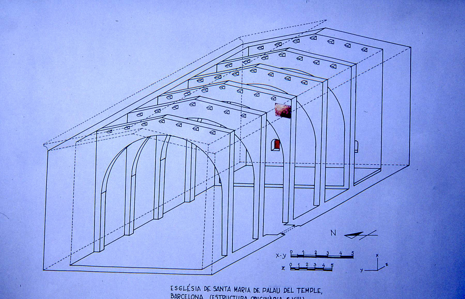 Capella de la casa de Palau del Temple. Perspectiva caballera. Dib. J. Fuguet